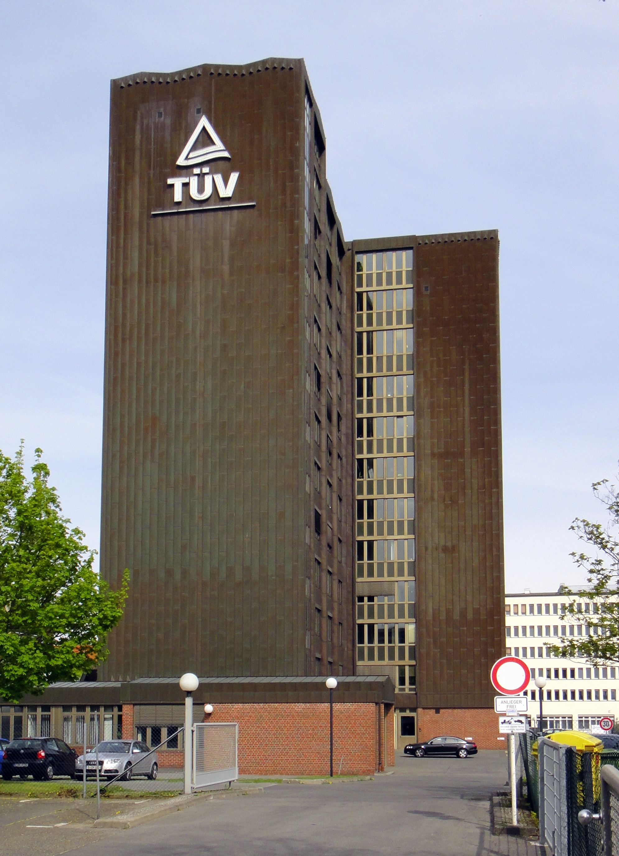 TÜV Rheinland in Berlin-Schöneberg